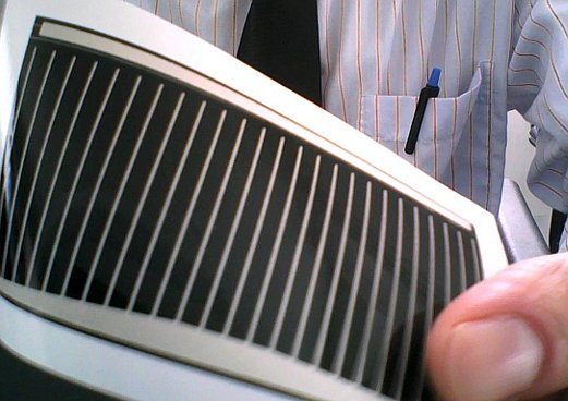 flexible thin CIGSe (Cu(In,Ga)(Se)2) solar cell, produced at Solarion AG. Substate: Polyimid.